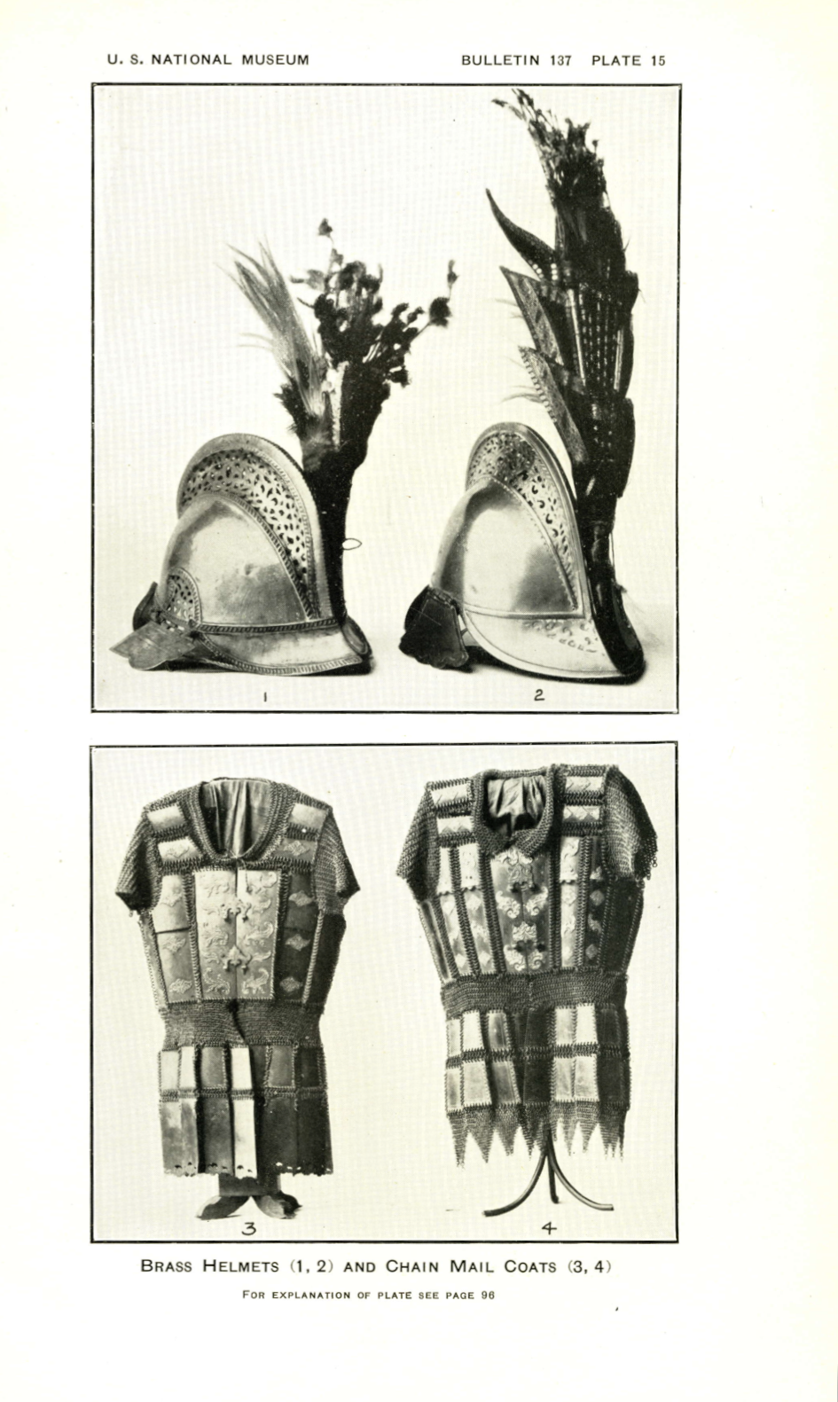 Plate 15 -- Plumed helmets of brass; coats of chain mail provided with plates of brass and horn. Moro, Mindanao, and Jolo Islands. Nos. 1-2. Plumed, crested, and figured brass helmets; Moro manufacture, but modeled after design of fifteenth century Spanish burganet. Jolo Island. 3. Cuirass of chain armor and brass plates; chain links taken from old Spanish armor; brass plates of Moro Manufacture. Moro, Mindanao. 4. Cuirass of chain armor; plates of carabao horn highly polished and overlaid with ornamental figures in silver. Moro manufacture, Mindanao. Other images on Filipino weapons by the same uploader are here: (a) Luzon weapons; (b) Visayan weapons; (c) Moro weapons; and (d) Lumad (non-Moro Mindanao) weapons